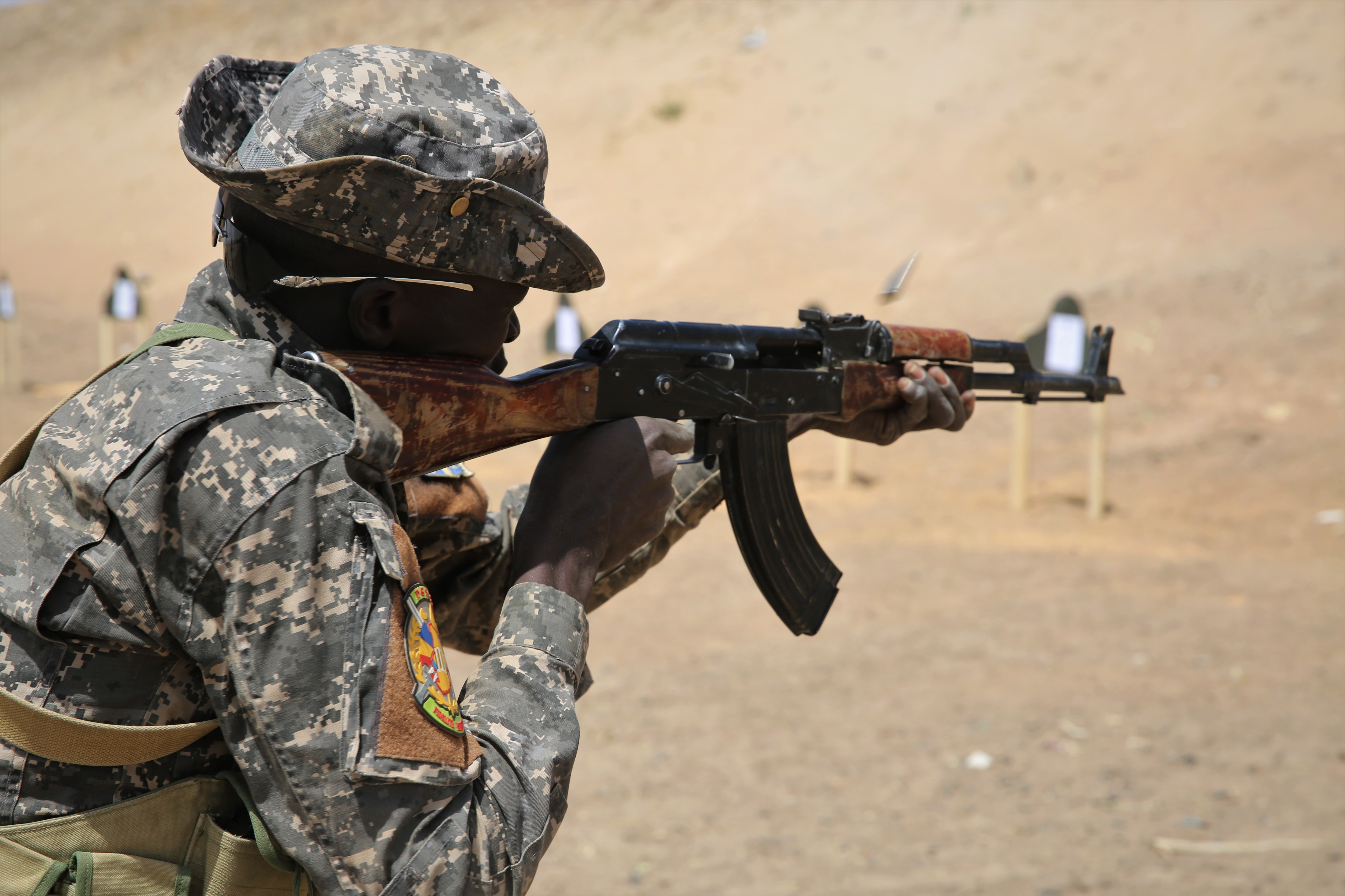 A Chadian Special Forces soldier receives basic rifle marksmanship training at a live fire range Mar. 6, 2017 in Massaguet, Chad as part of Flintlock 17. Flintlock is an annual special operations exercise involving more than 20 nation forces that strengthens security institutions, promotes multilateral sharing of information, and develops interoperability among partner nations in North and West Africa. (Army photo by Sgt. Derek Hamilton) Unit: U.S. Africa Command DVIDS Tags: marksmanship; Flintlock; Chad; Flintlock17